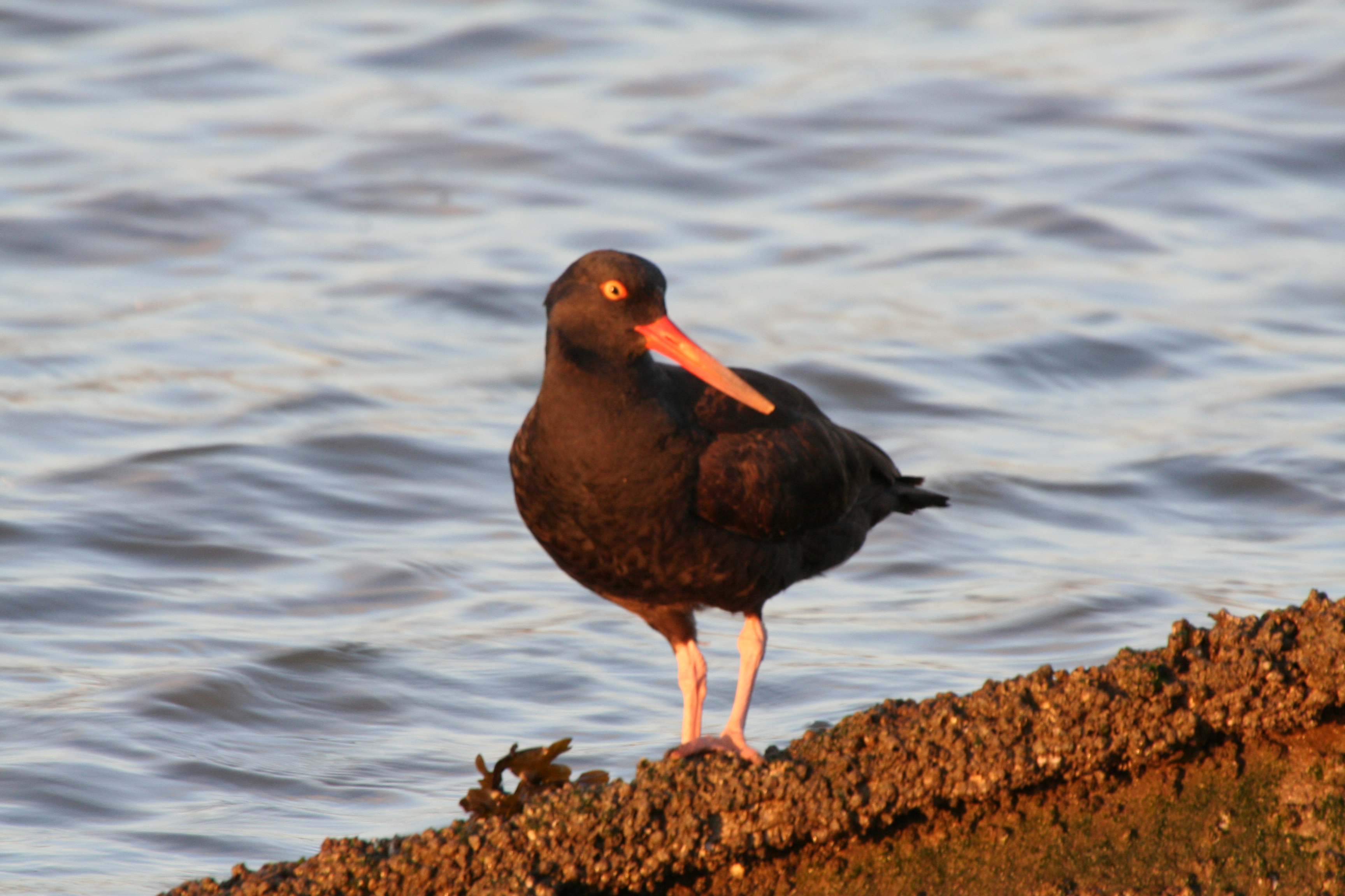 Photographed by and copyright of (c) David Corby (User:Miskatonic, uploader) 2006 Haematopus bachmani